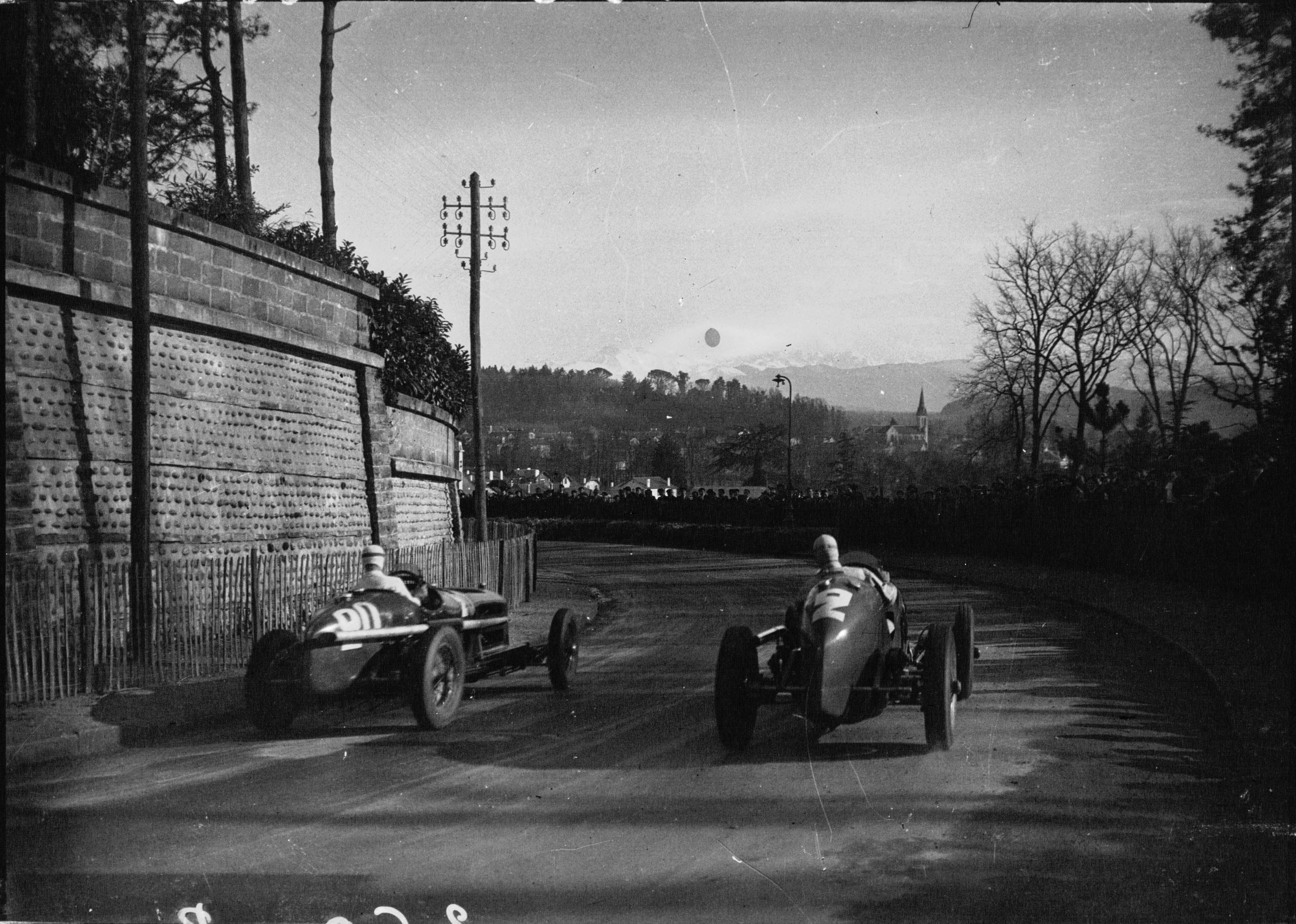 Robert Brunet (#2) and René Dreyfus (#20) at the 1935 Grand Prix de Pau